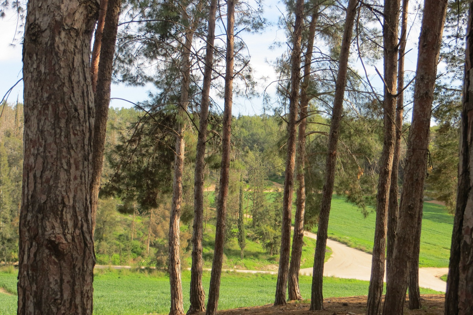 Israeli forest